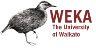 Weka Data Mining Open Software in Java